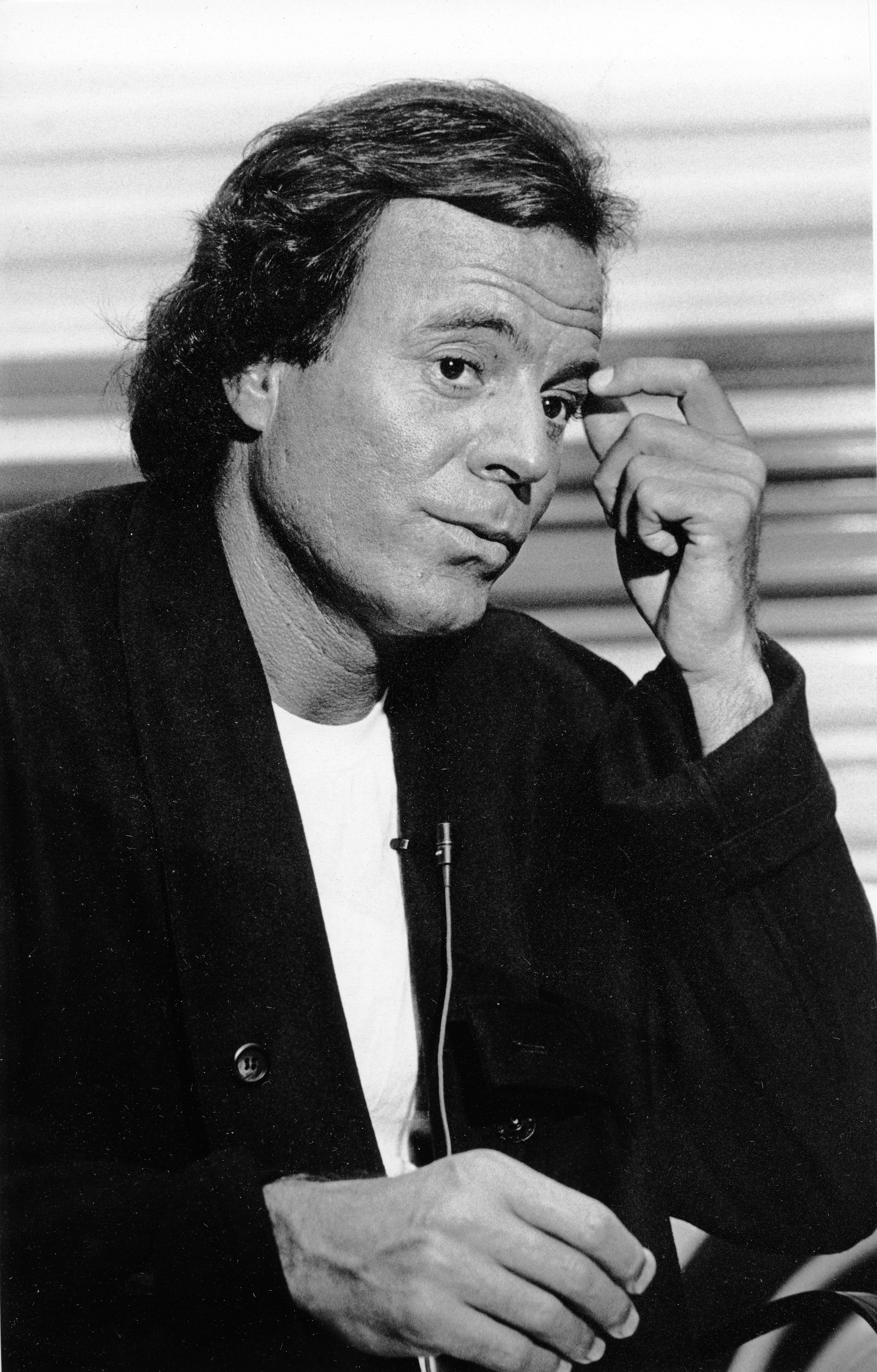 Title: Julio Iglesias Creator: Mayor's Office - City Photographer Date: circa 1984-1987 Source: Mayor Raymond L. Flynn records, Collection #0246.001 File name: RF_022 Rights: Copyright City of Boston Citation: Mayor Raymond L. Flynn records, Collection #0246.001, City of Boston Archives, Boston